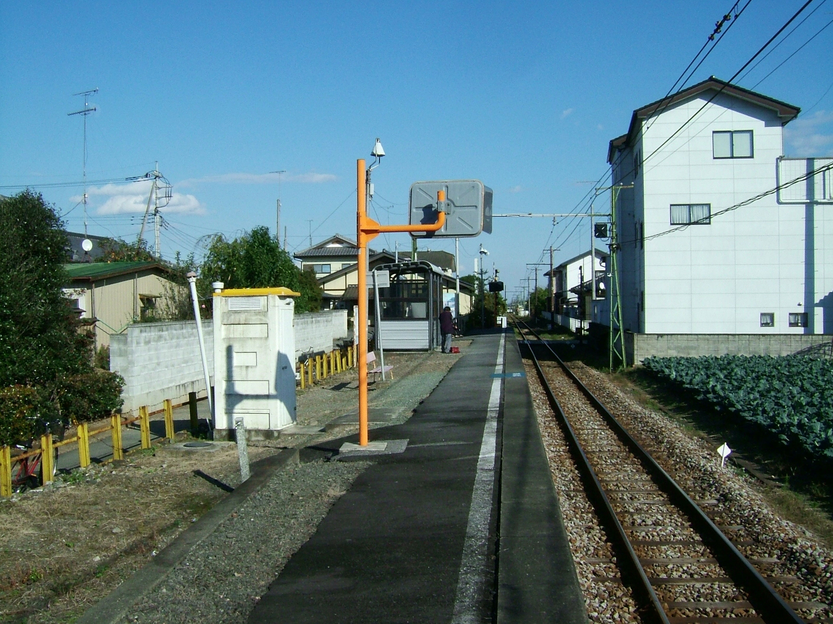 Kanohara Station platform (Jōshin Dentetsu Jōshin Line)